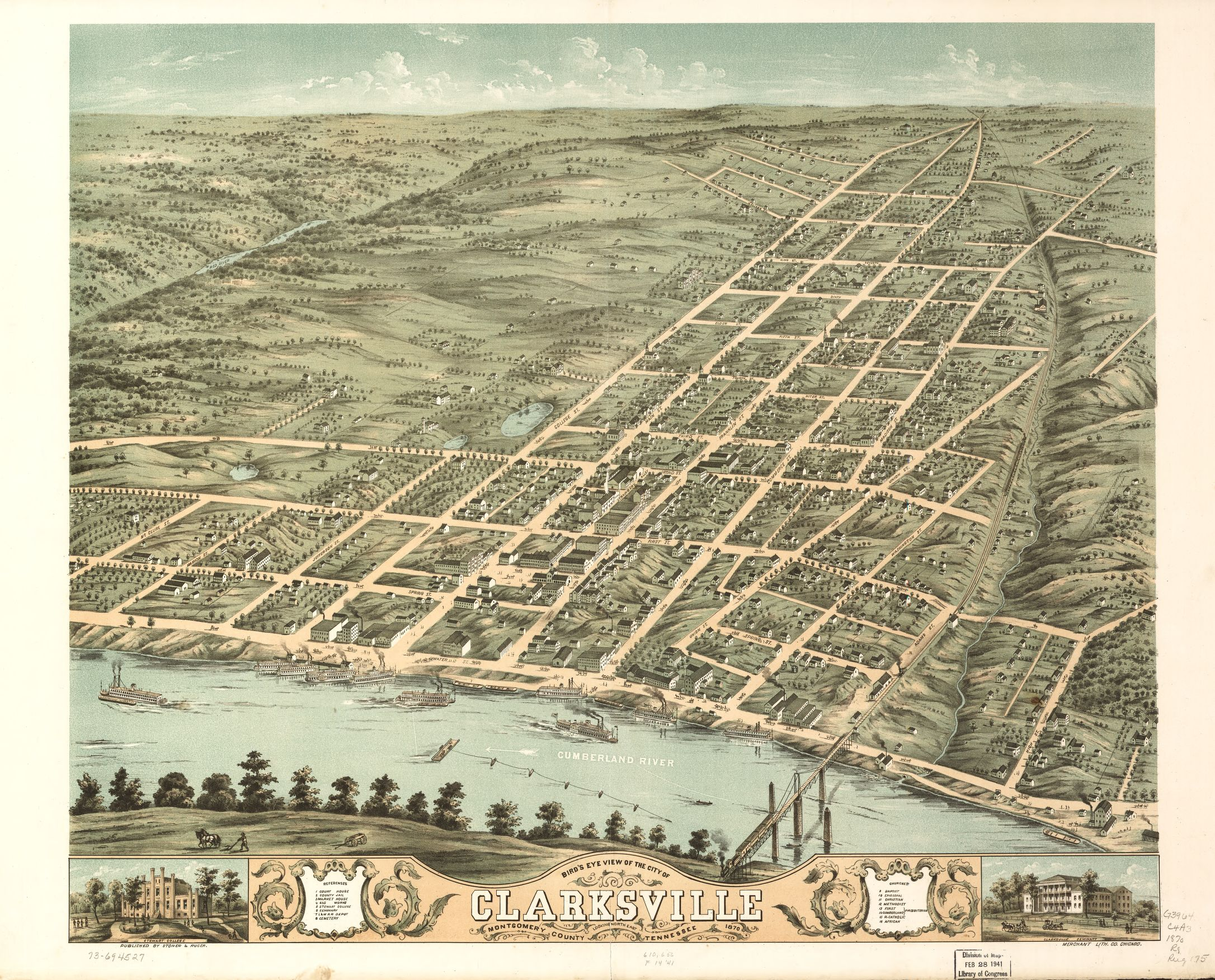 Bird's eye view of the city of Clarksville, Montgomery County, Tennessee, USA